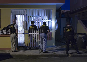 Photo of a raid taking place as part of the Drug Enforcement Agency's Operation Mallorca